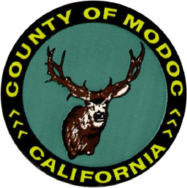 Seal of Modoc County, California (2006)